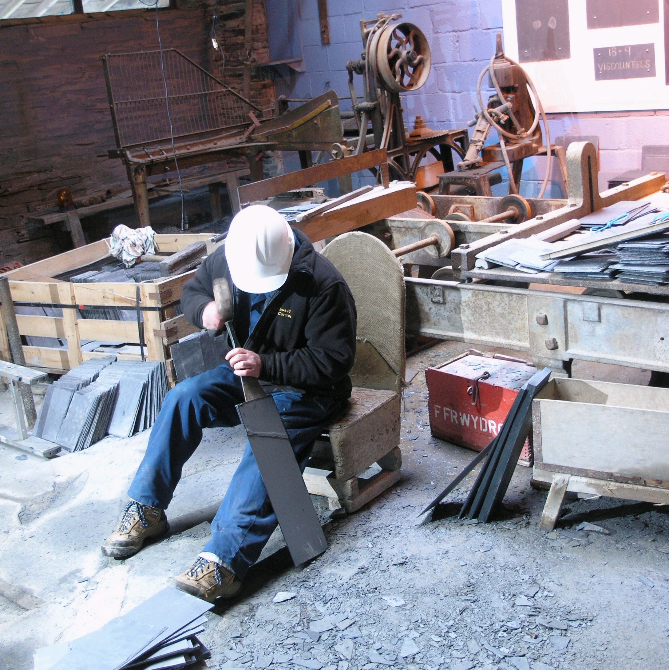 Llechwedd Slate Caverns